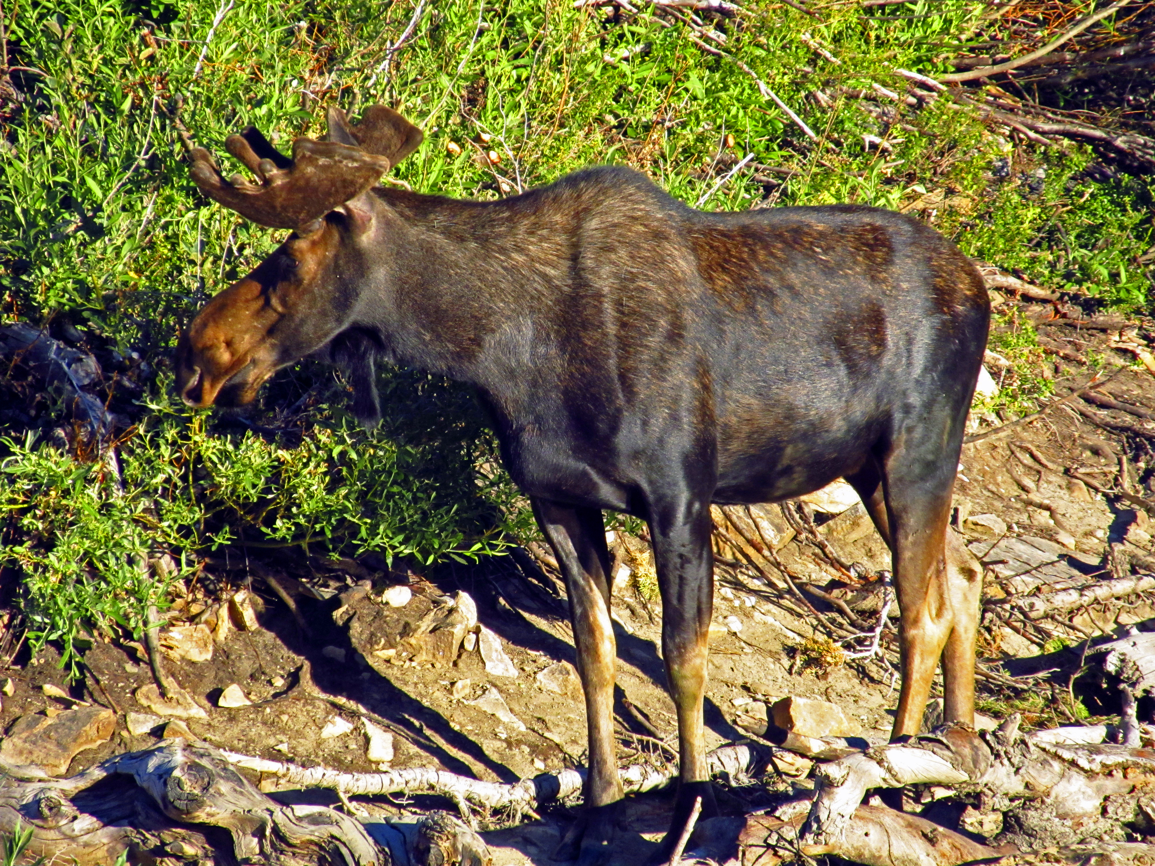 Shiras (shirasi subspecies) Bull Moose at Cecret Lake, approximately 2.8 miles southeast of the Town of Alta, Utah (Little Cottonwood Canyon, Wasatch Mountains), USA.